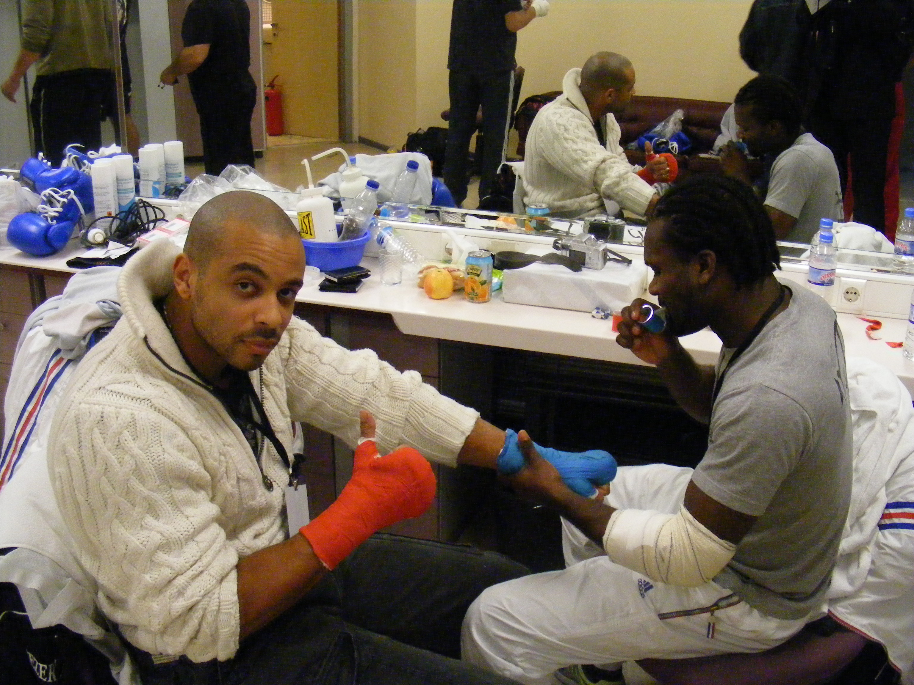 This picture was surely taken by myself during K-1 Fighting Network Turkey 2007. I give permission to Wikipedia's usage